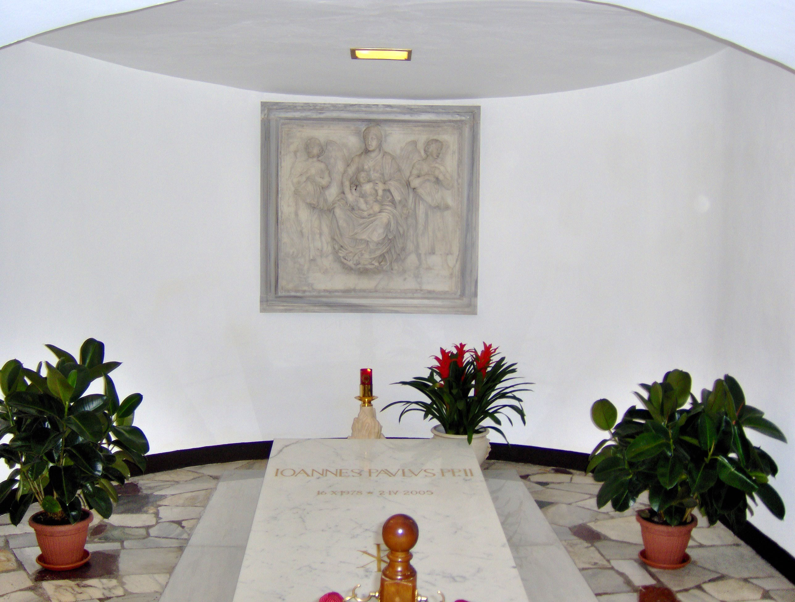 Tomb of Ioannes Paulus II, St. Peter's Basilica